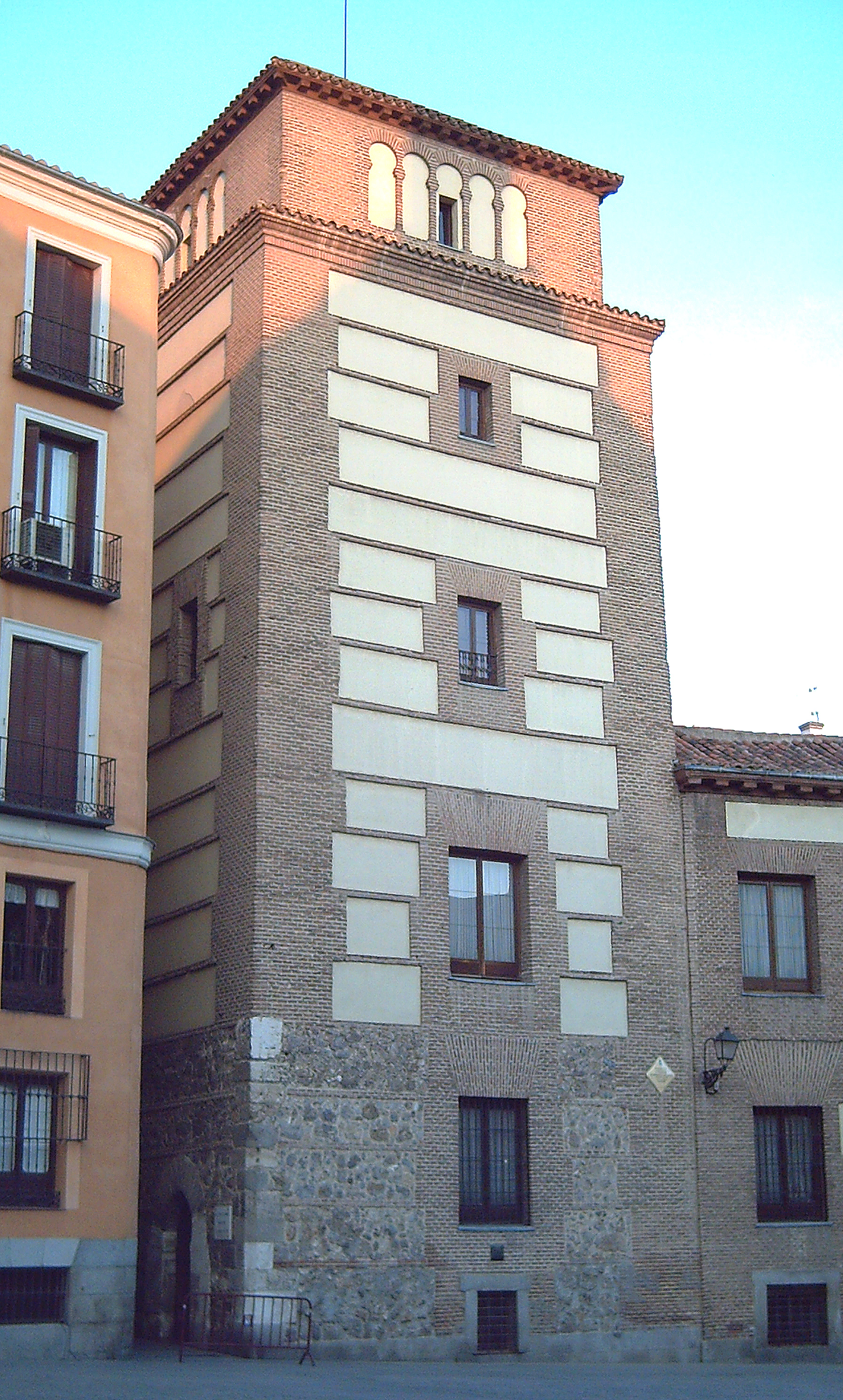 Torre de los Lujanes, at the Plaza de la Villa (square) in Madrid (Spain). Built in the 15th century.